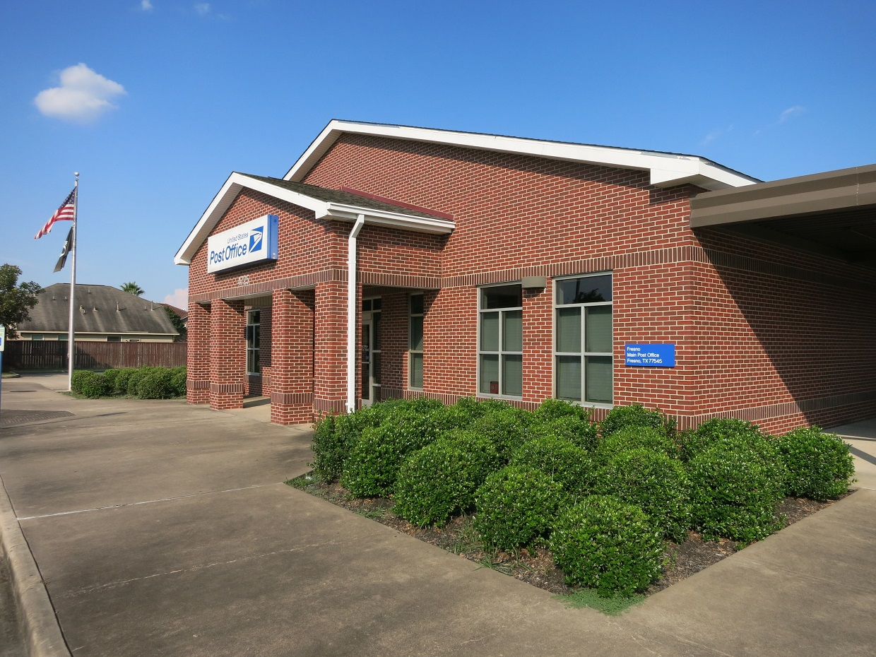 Photo shows the US Post Office at 4725 Teal Bend Blvd, Fresno, TX 77545. View is toward the east.